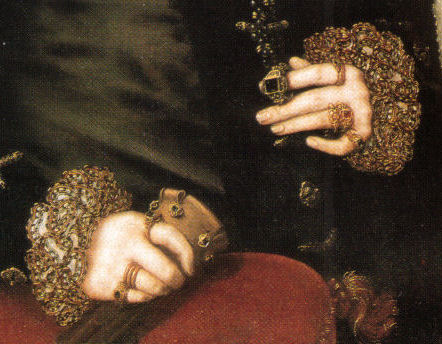 Detail of rings worn by Mary Nevill or Neville, Baroness Dacre, in a double portrait with her son Gregory Fiennes, 10th Baron Dacre